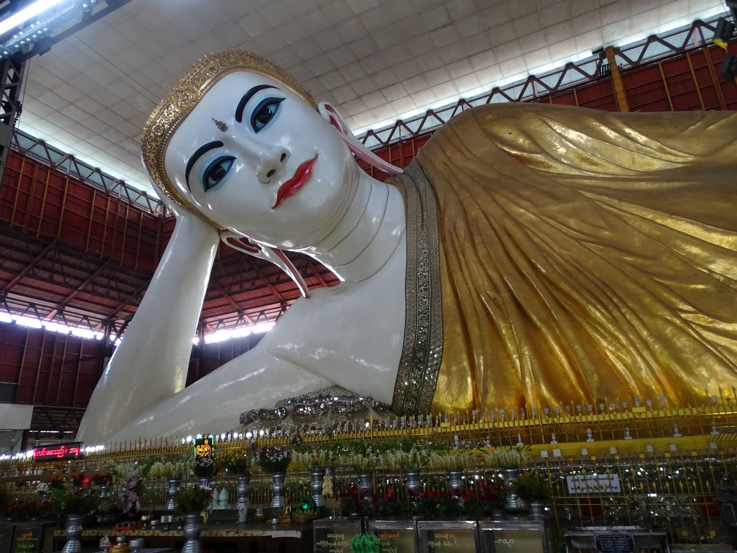 Yangon - Chauk Htat Gyi pagoda